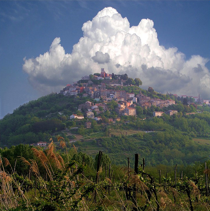 In the central part of Istria, the old Motovun is one of the most picturesque towns.